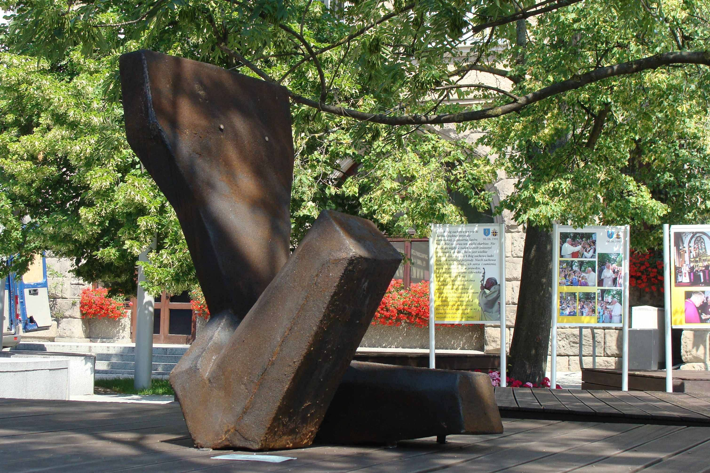 "Women" by State Secondary School of Fine Arts student Iwona Kwiatkowska, 2016.